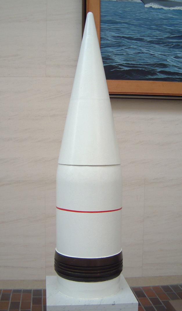 The 46 cm Type 1 armour piercing shell at the Yasakuni shrine in Tokyo.